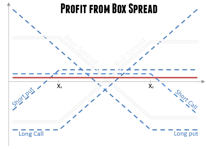 Profit diagram of a box spread. The red line represents the profit, the blue lines represent the individual option positions.